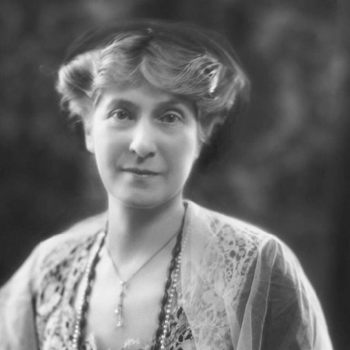 Agnes Geraldine (née Fox-Pitt-Rivers), Lady Grove by Basson Ltd in 1923